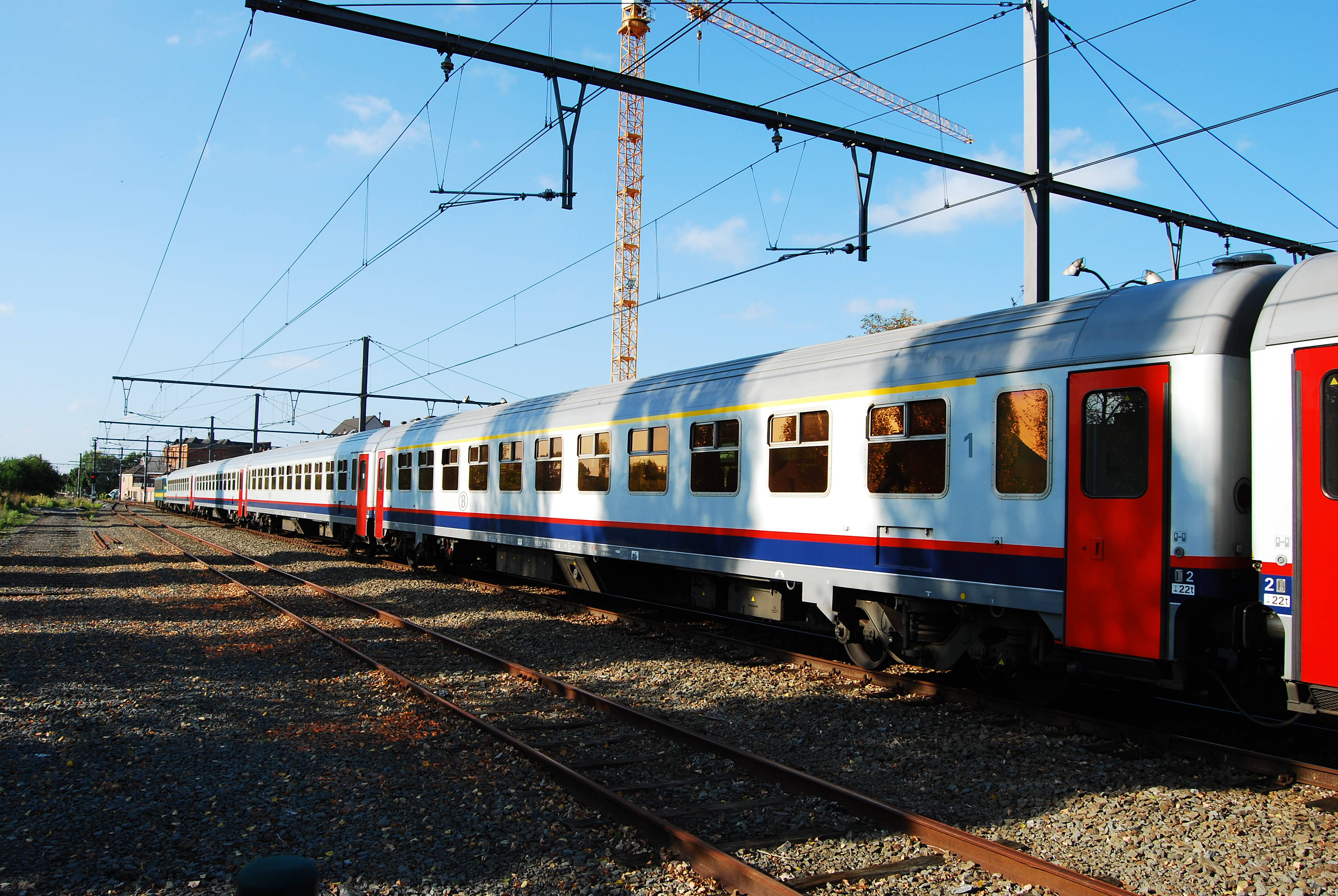 I10 in Ypres